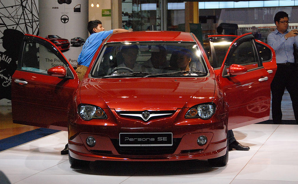 Proton Persona SE launched at Cineleisure Mutiara Damansara, Malaysia